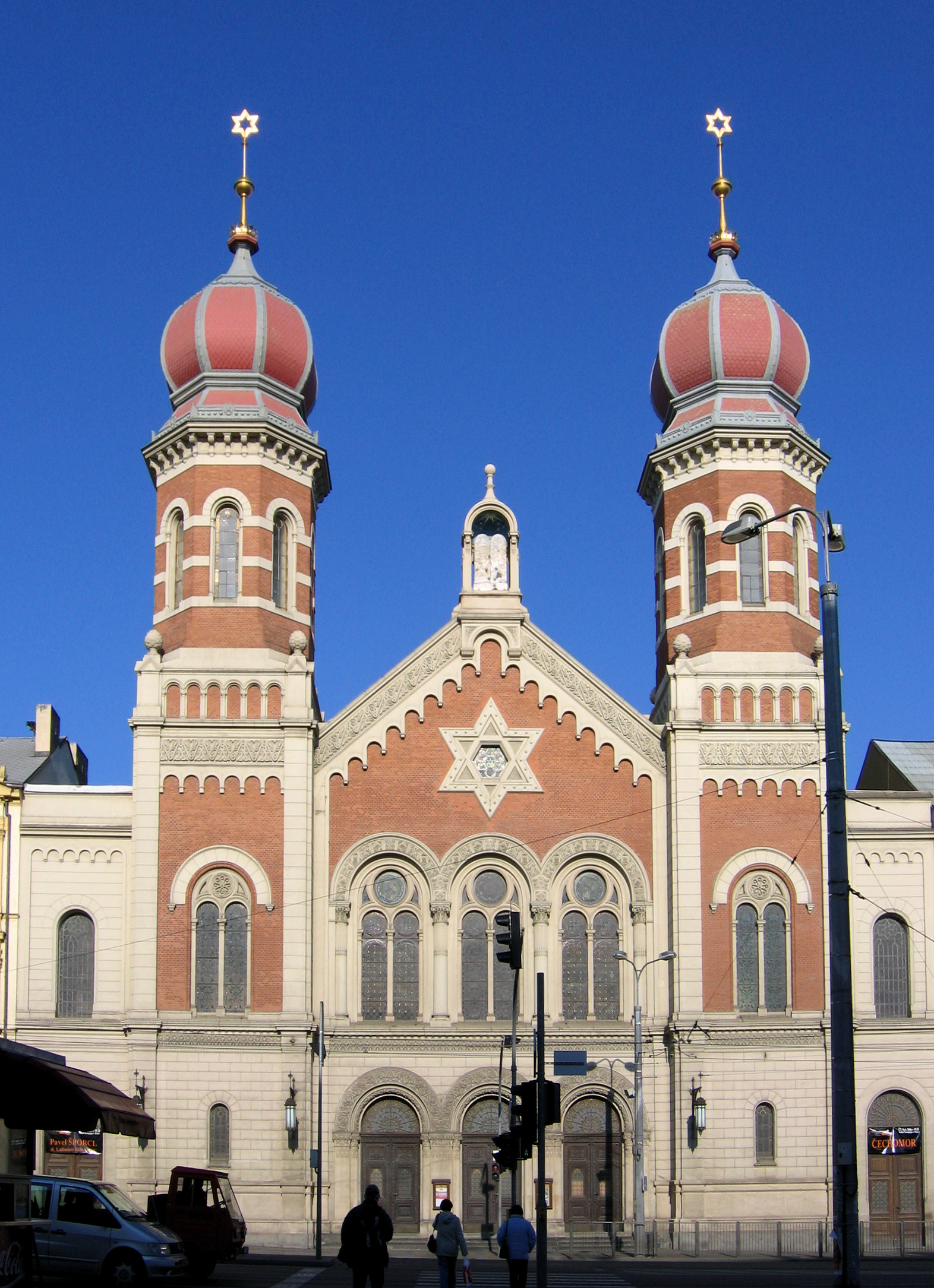 City of Plzeň, Czech Republic. Pilsen, Tschechien. The "great synagogue" in the city of Plzeň, Czech Republic. 3rd largest synagogue in the world. Synagoge in Pilsen, Tschechien.